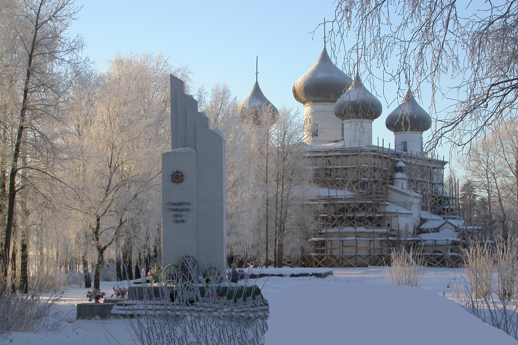 Kargopol (Russia)